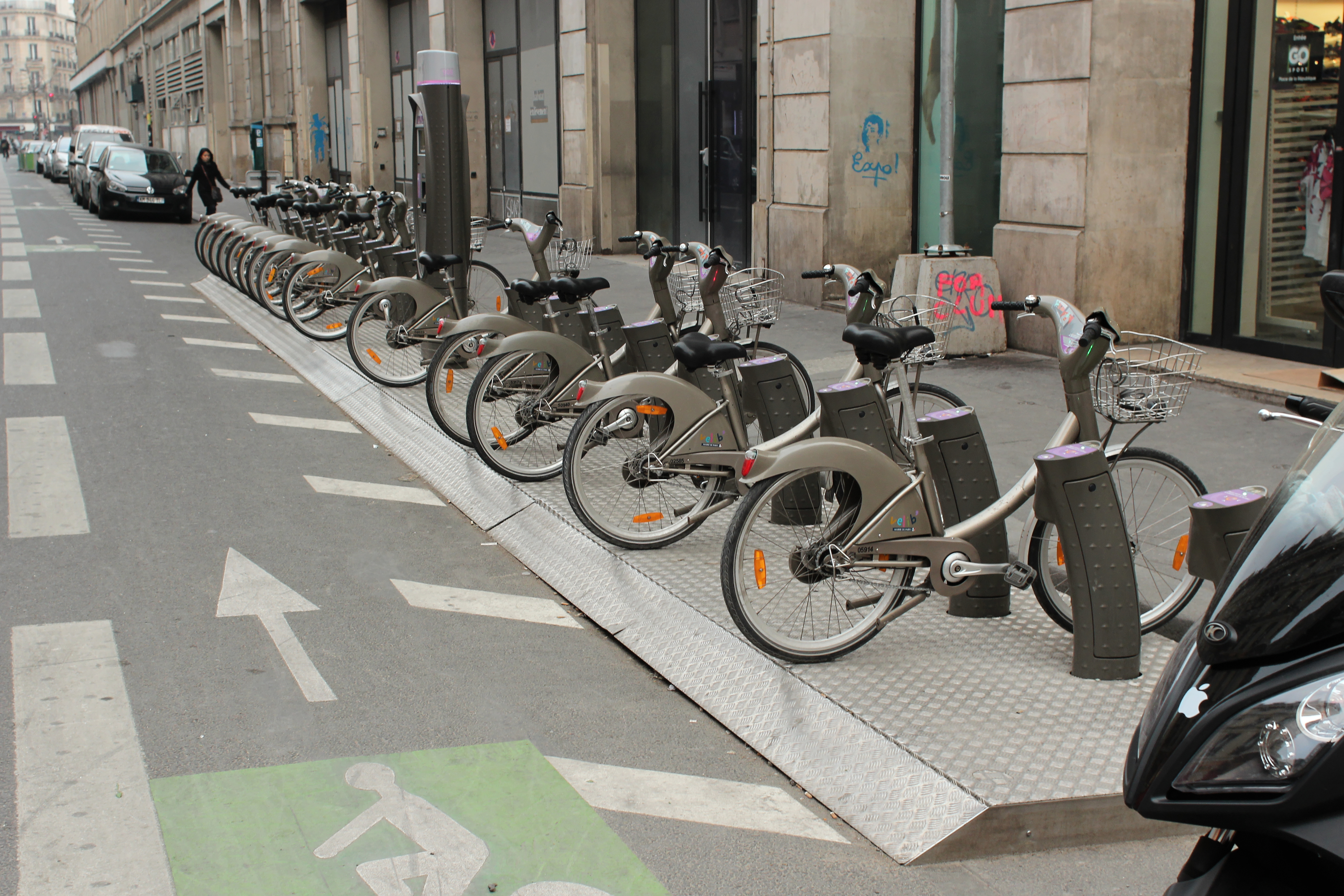 Restructuration of place de la République (Paris).